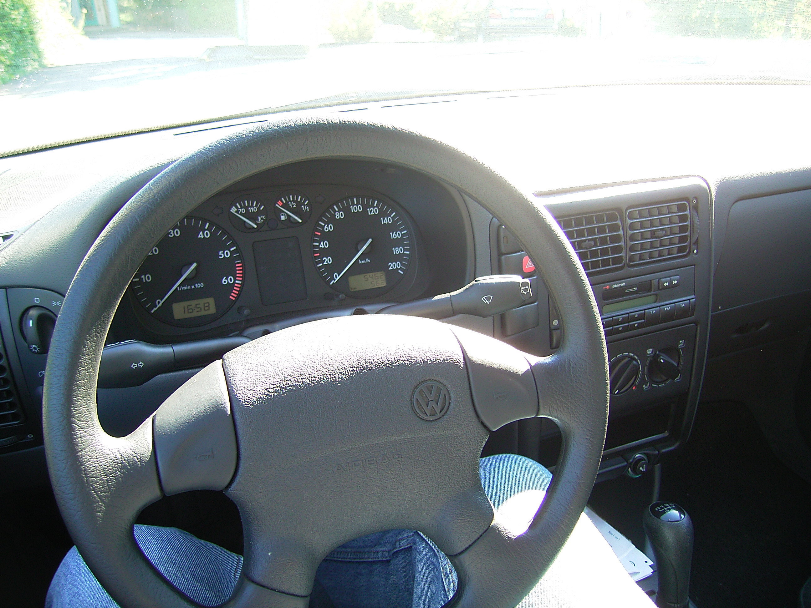 A dark green VW Polo Mk III (6N)